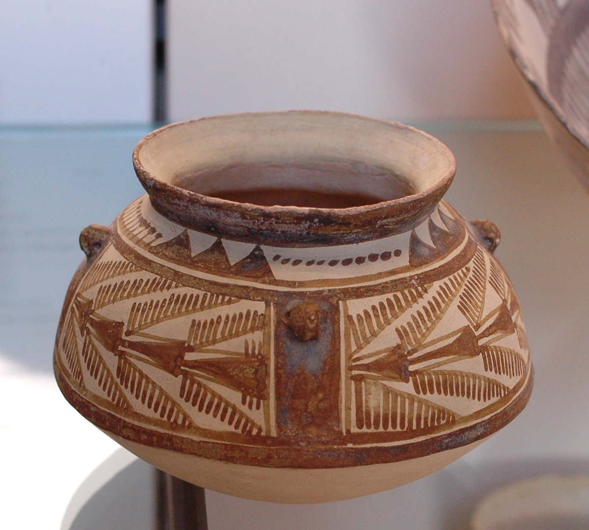 Carinated vase with wading birds and birds with open wings. Terracotta, Susa I (4200–3800 BC), found in the necropolis of the Tell of the Acropolis.